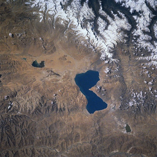 Aerial view of Lake Paiku